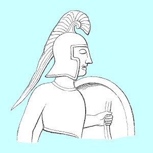 Etruscan warrior from Casuccini museum